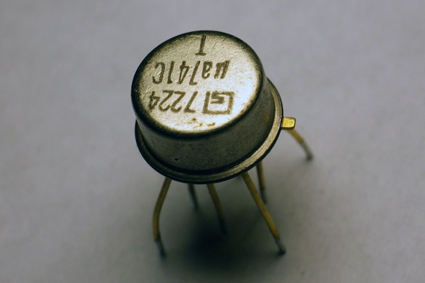 ua741 IC, produced 1972 by Signetics Corp.